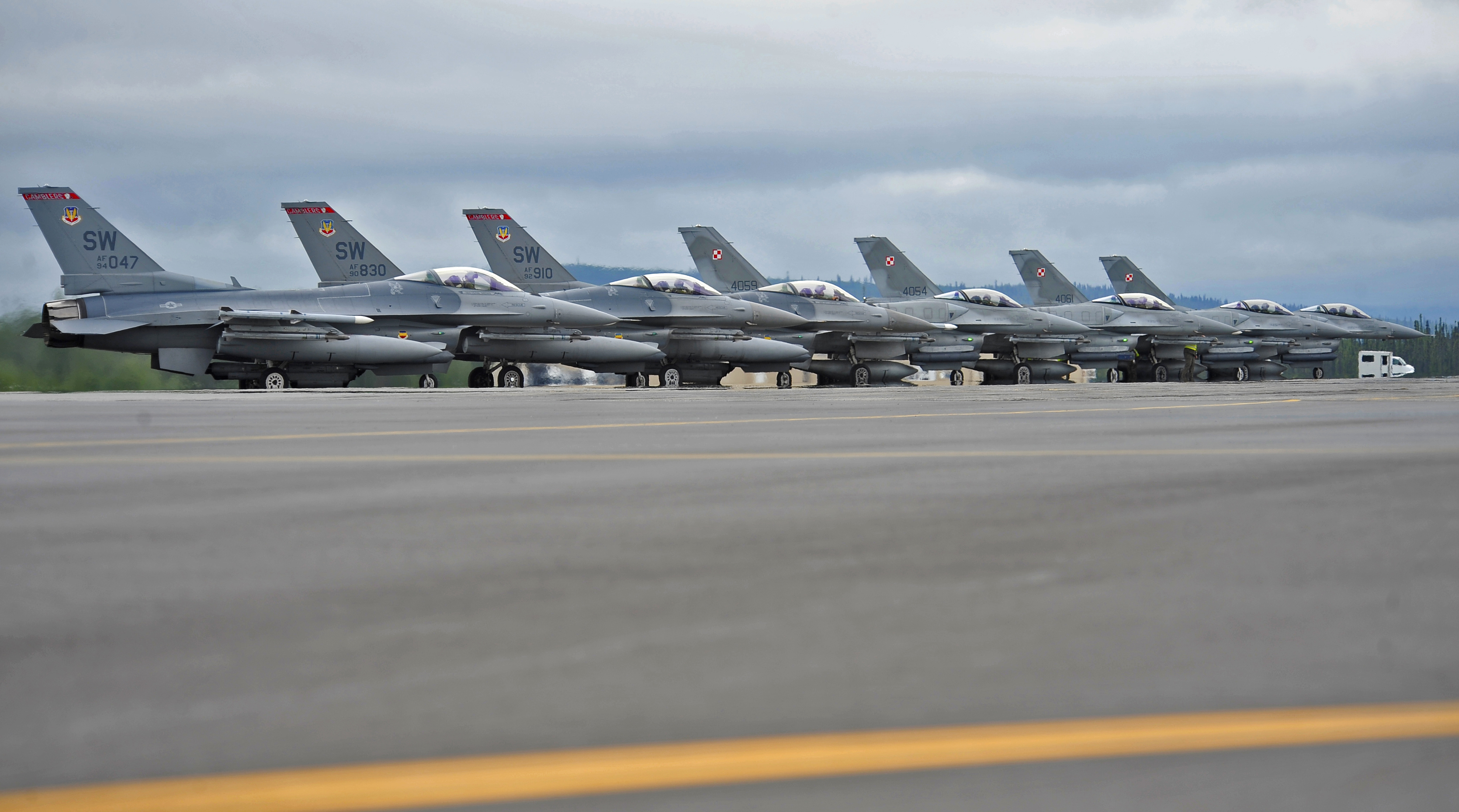 U.S. Air Force and Polish air force F-16C Fighting Falcons awaits the signal to launch during RED FLAG-Alaska 12-2 June 11, 2012, Eielson Air Force Base, Alaska. This is the first time the PLAF has participated in RF-A. RF-A provides aircrews realistic combat sorties increasing their chances of survival in real-world combat. The U.S. Air Force F-16s are assigned to the 77th Fighter Squadron, Shaw Air Force Base